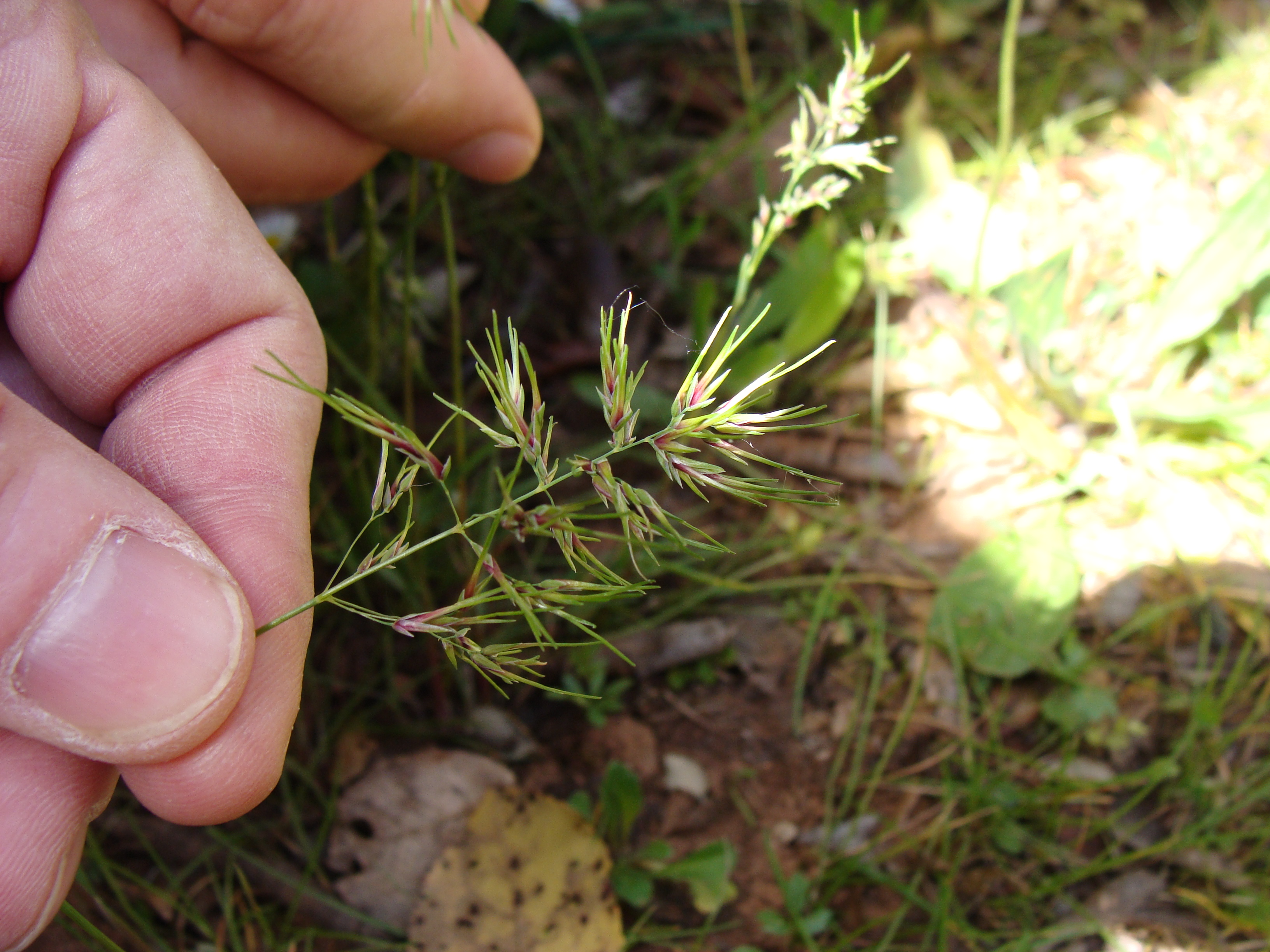 Festuca vivipara in the Natural Park of Serra de Enciña de Lastra, Orense, Galicia, Spain.